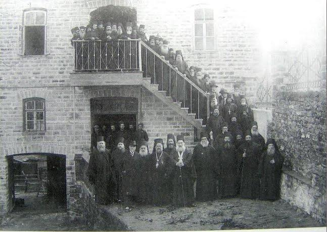 Athonias Academy official opening of the academic year 1930-1931. In this photo the Orthodox Bishop of Korce, the professor of the University of Thessaloniki I. Papadopoulos, and in the middle Eulogios Kourilas